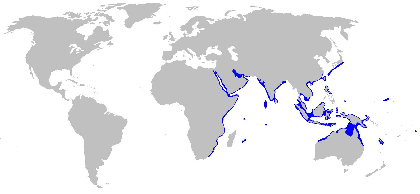 Distribution map for Nebrius ferrugineus